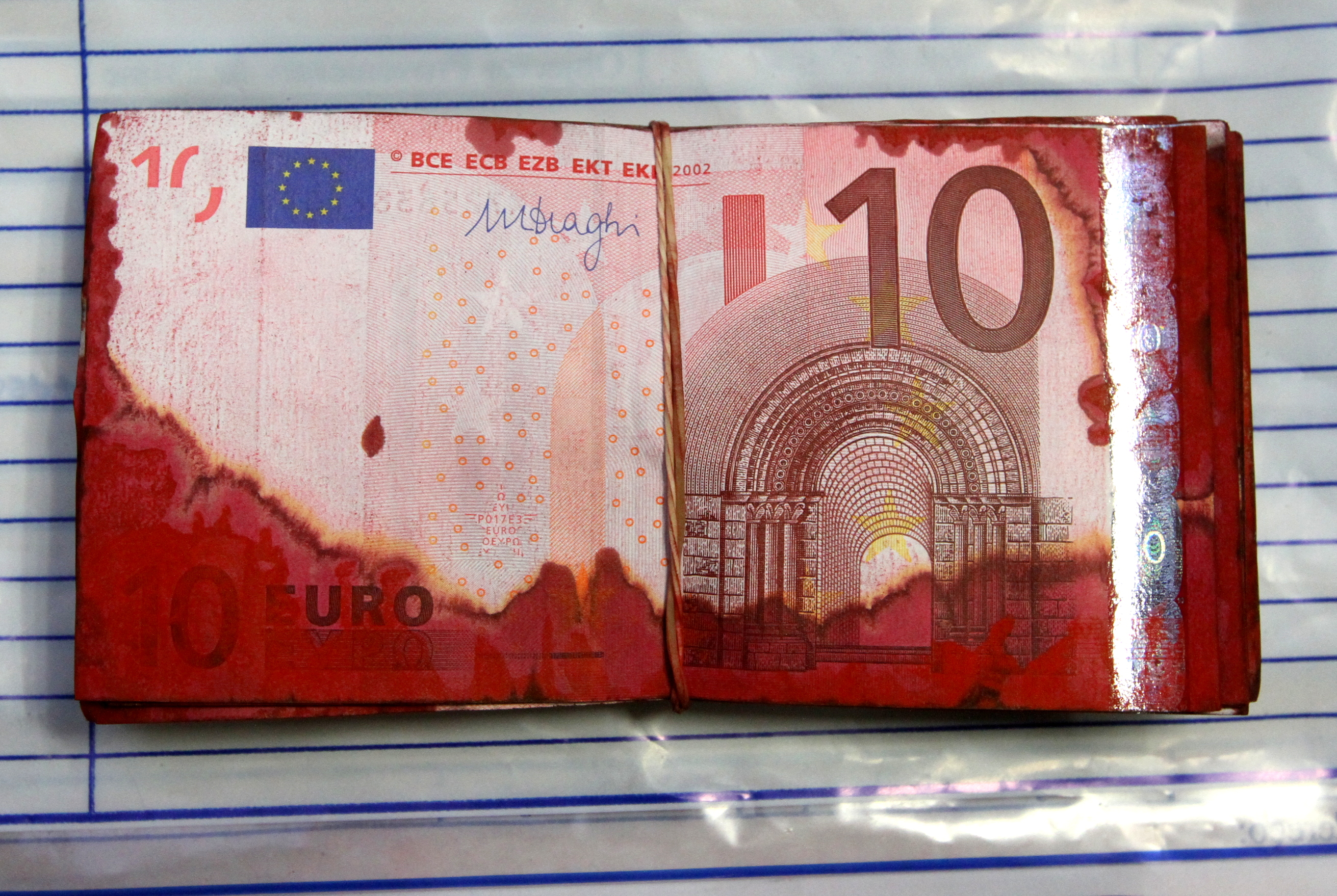 With red paint made ​​unusable € 10 notes from a cash machine robbery (with the signature of Mario Draghi)